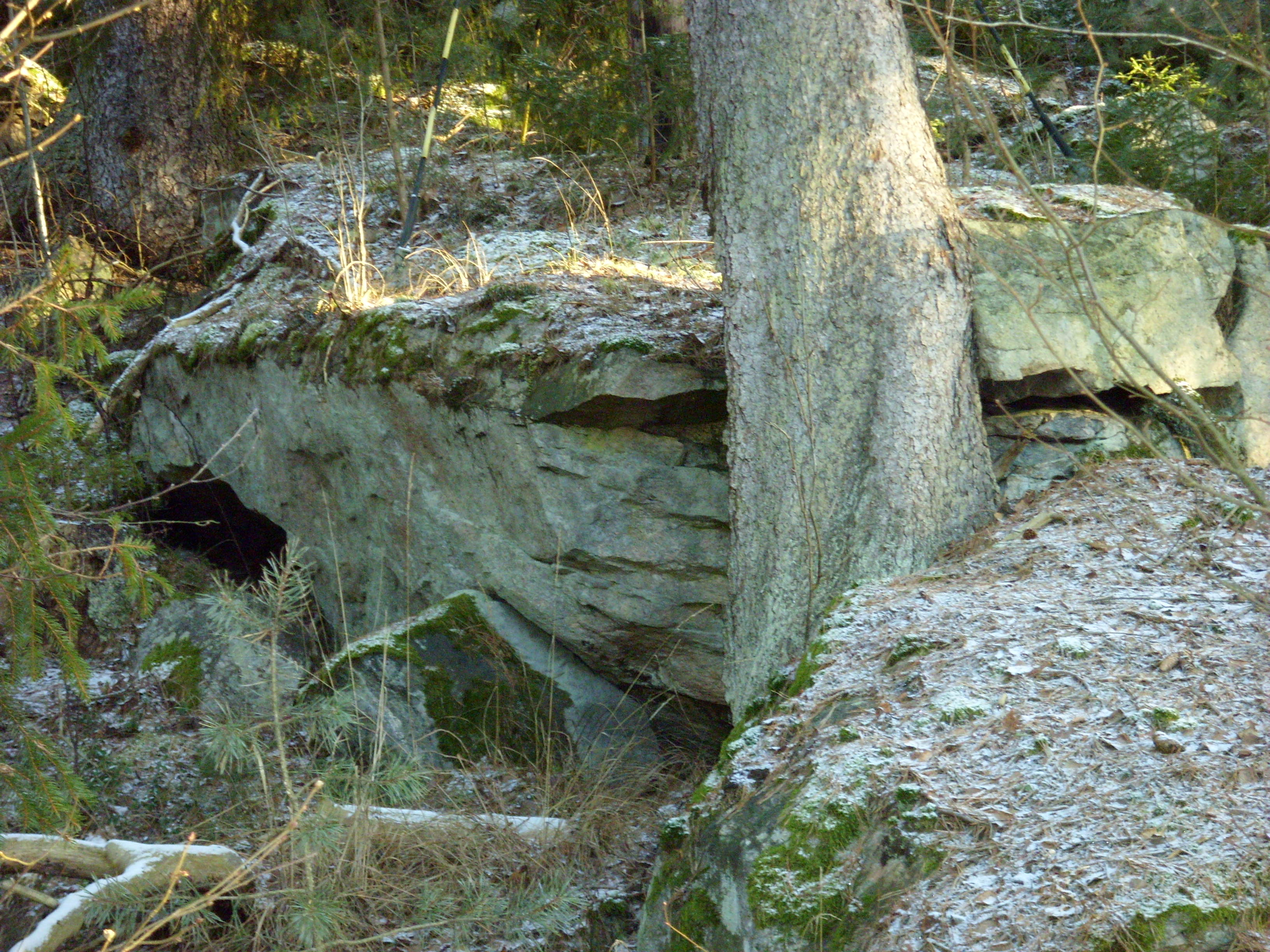 This is a picture of a trunk between two rocks in the nature reserve called Talbyskogen, in Södertälje, Sweden.